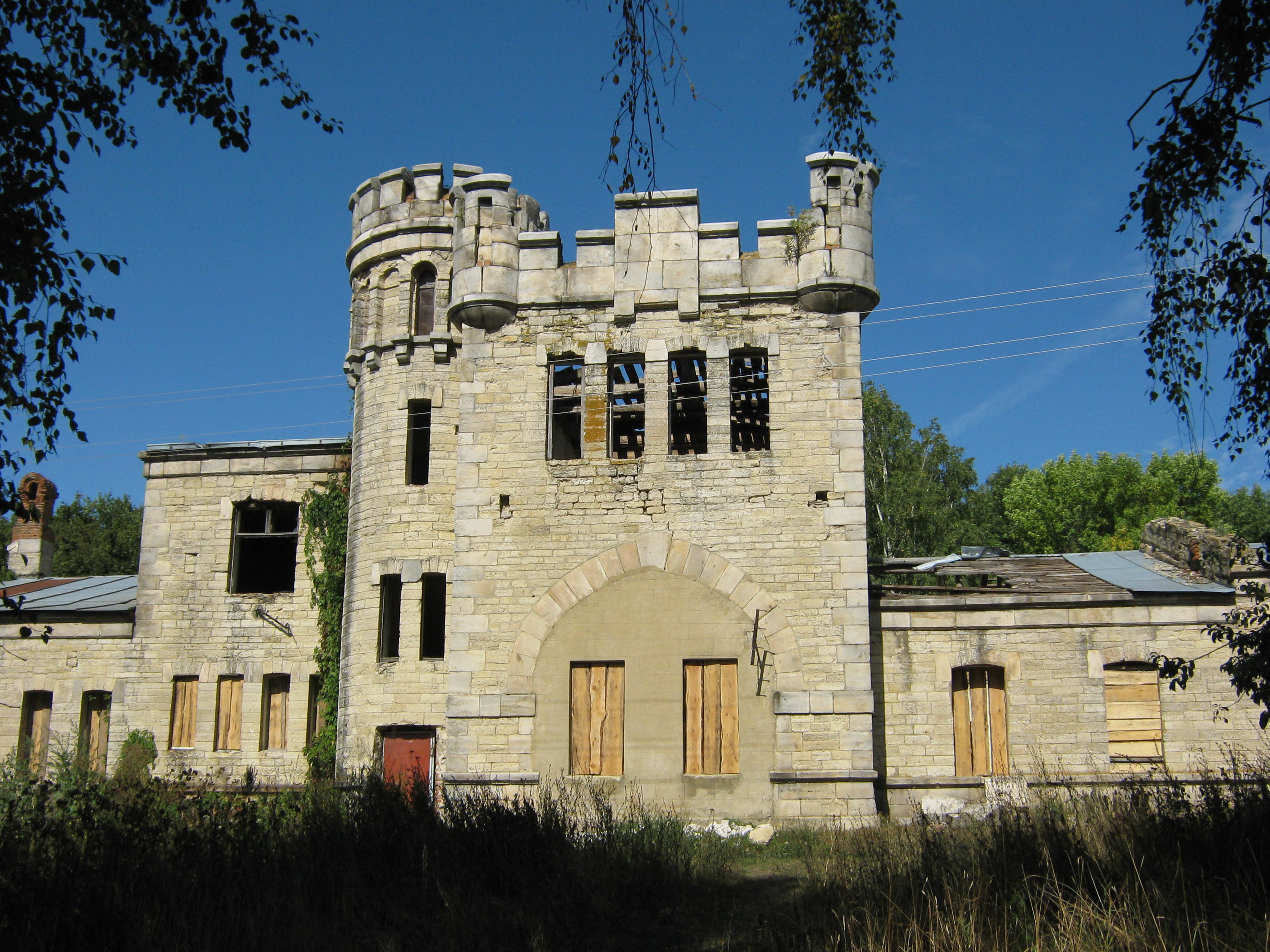 Country residence Sheremetevy in Borki, Lipetsk Oblast